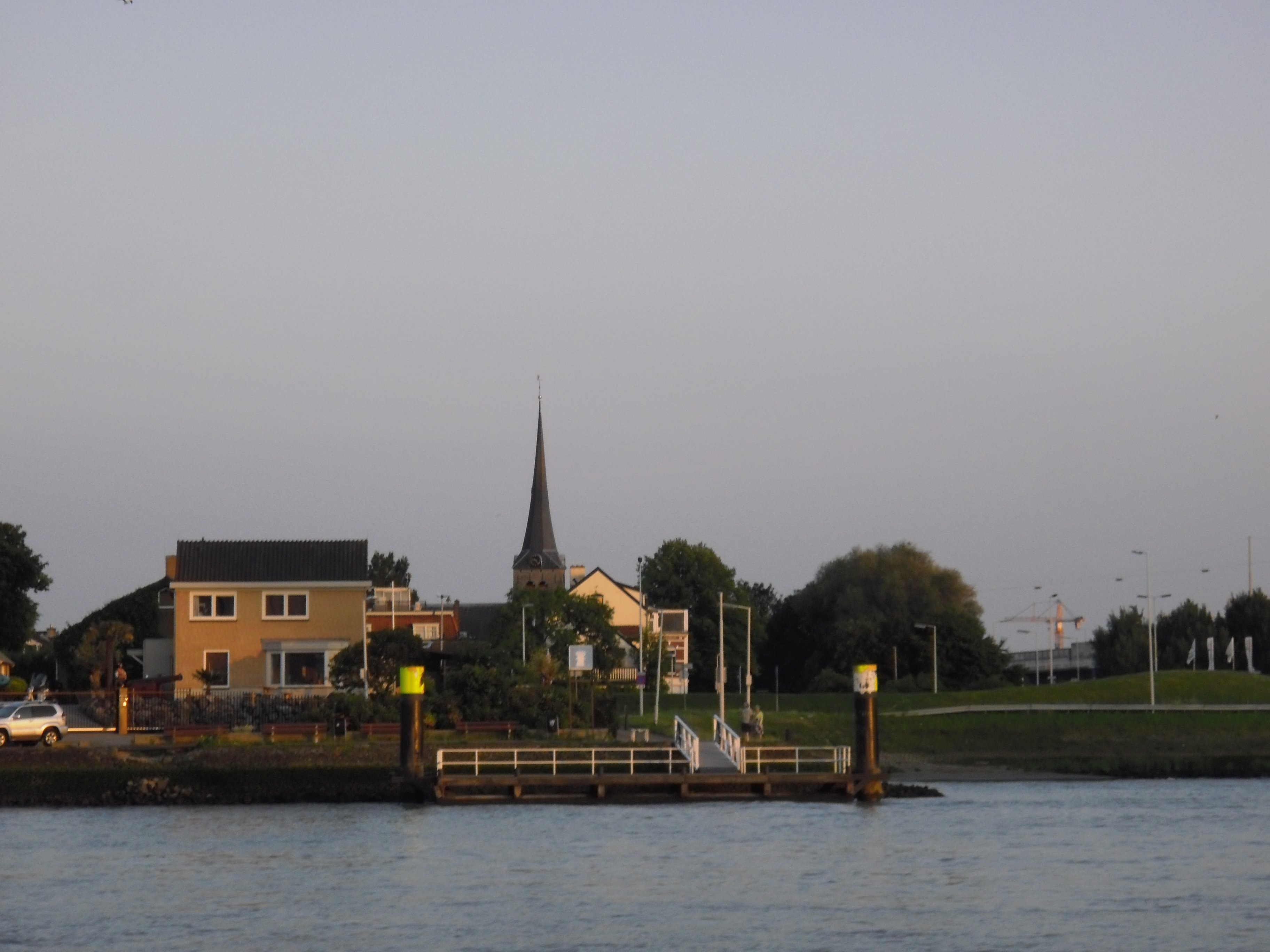 Oud IJsselmonde, a part of Rotterdam, The Netherlands.